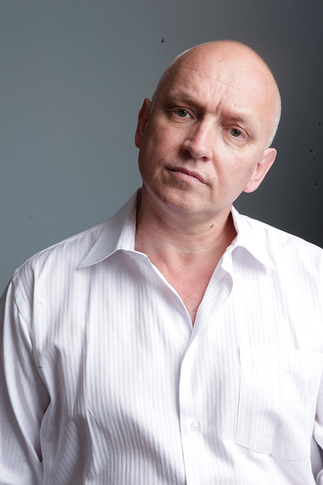 Kazakh Oposittionist